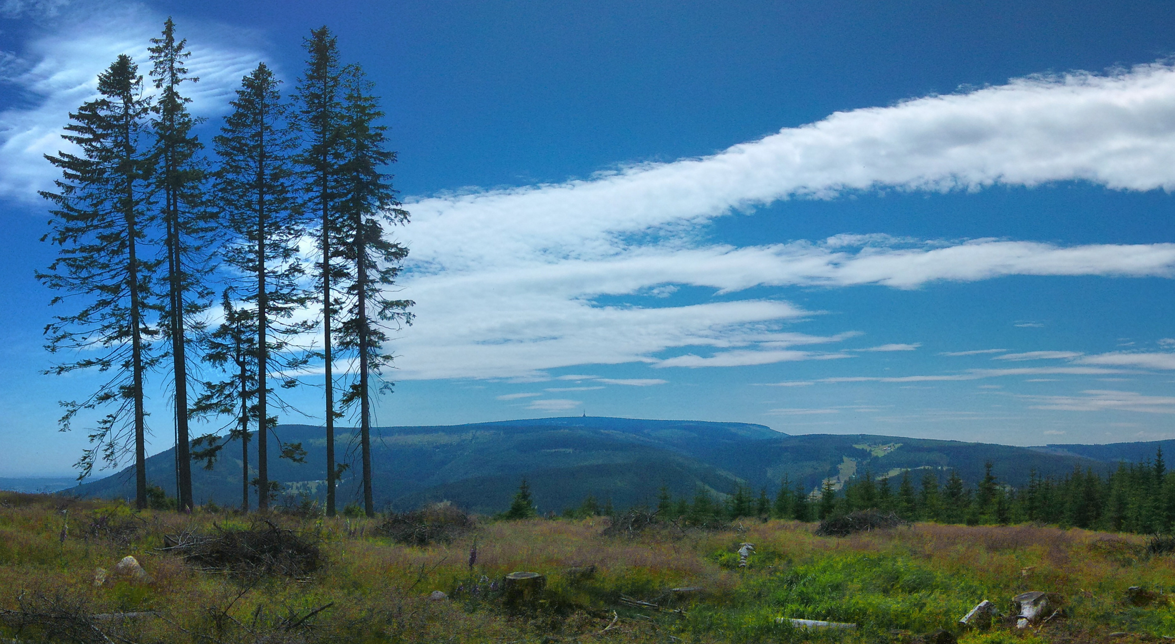 Černá hora in Krkonoše mountains